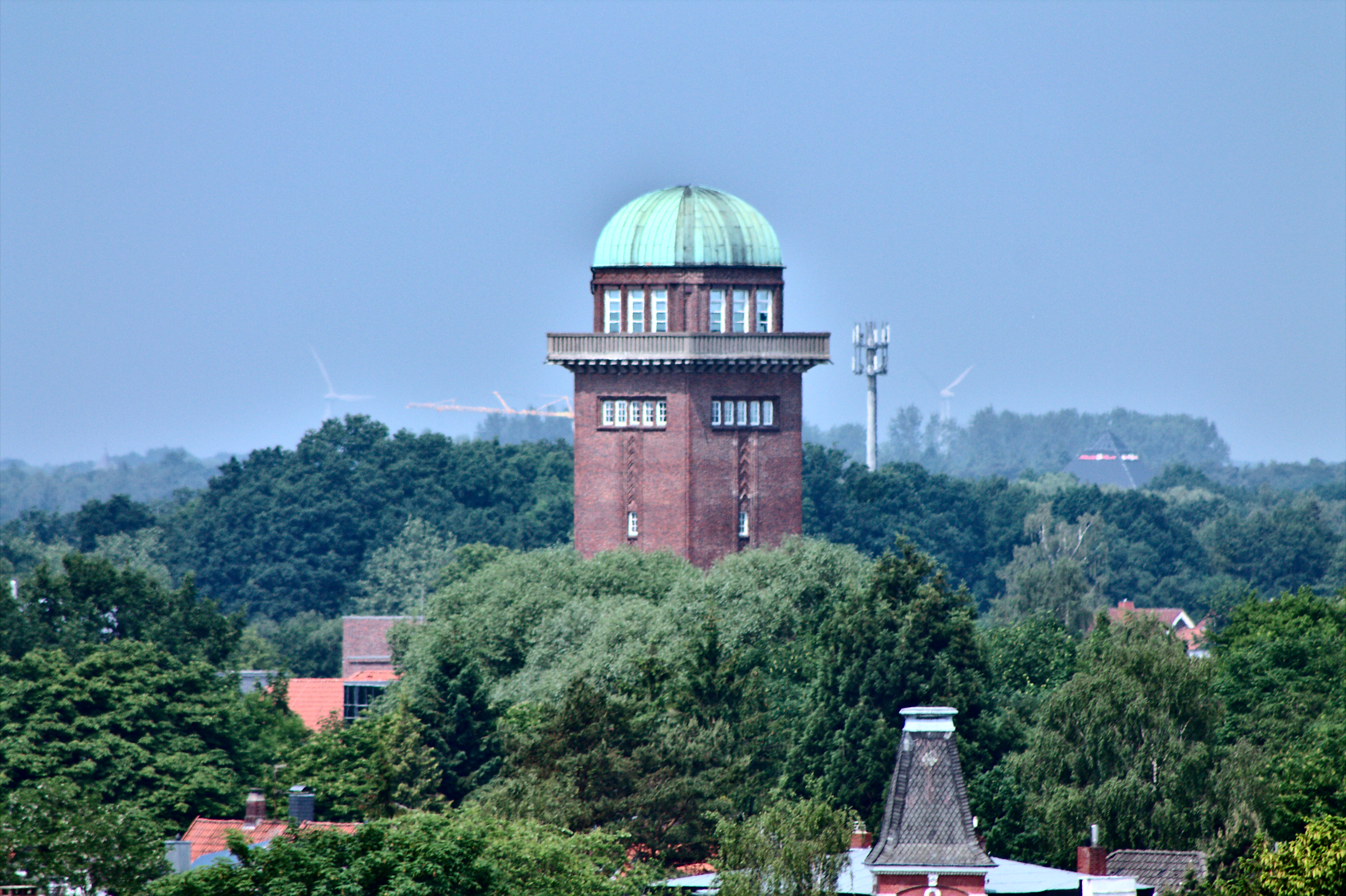 The tower of the Alte Fleiwa, a defunct meat processing plant in the west of Oldenburg, Lower Saxony, Germany, as seen from the headquarters of the Nordwest-Zeitung newspaper.